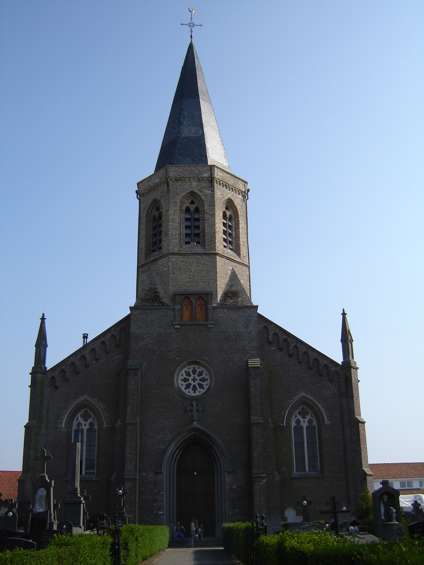 Church of Saint Nicholas in Moere, Gistel, West Flanders, Belgium